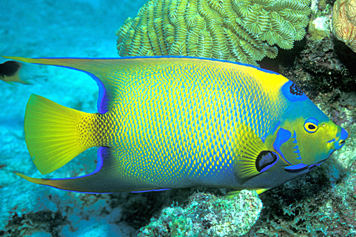 The queen angelfish rules... (Holacanthus ciliaris). Bonaire, Netherland Antilles.Regal Queen